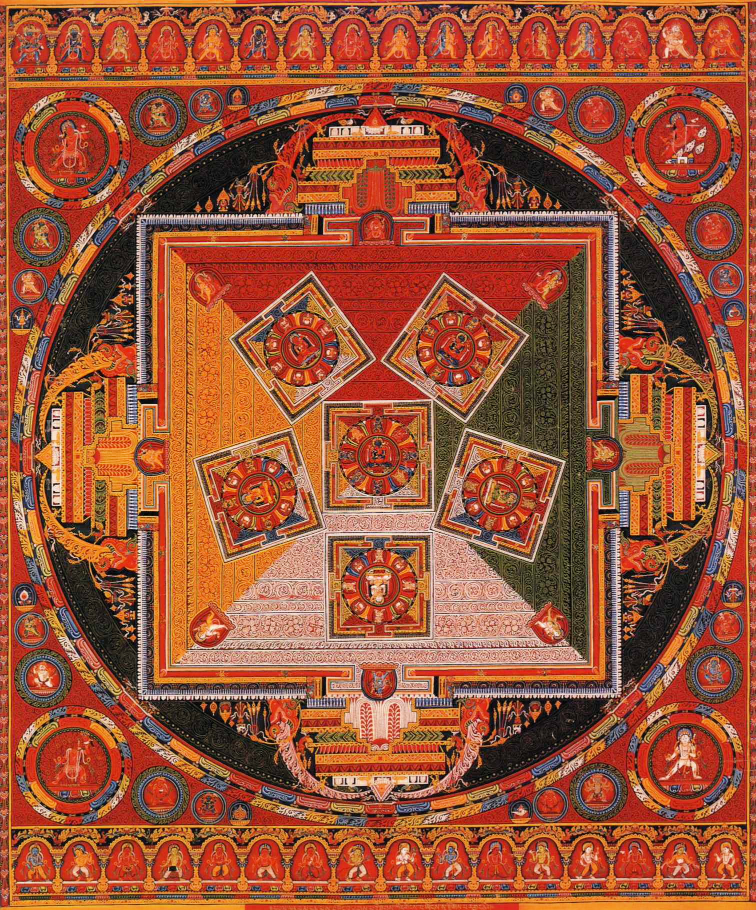 Tibetan Buddhist thangka painting of a mandala